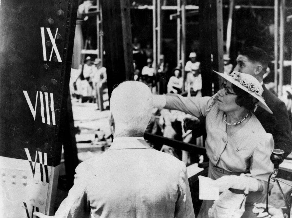 Mrs Michael Joseph McKew, wife of the Director of Evans Deakin Shipyards in Brisbane, launching the Bathurst class corvette HMAS Broome on 6 October 1941 Broome was a 650-ton Australian Minesweeper (populary referred to as a corvette) built by Evans Deakin & Company Ltd., Brisbane. Broome commenced her operational service on 19 October 1942 when she joined a Sydney-to-Brisbane convoy off Newcastle. She parted from the convoy off Moreton Bay and proceeded to Townsville and then to Cairns. Until mid November 1942, the ship was engaged on anti-submarine patrols and escort duties in the North Queensland area, when she transferred to New Guinea waters for similar work in the Port Moresby and Milne Bay areas.